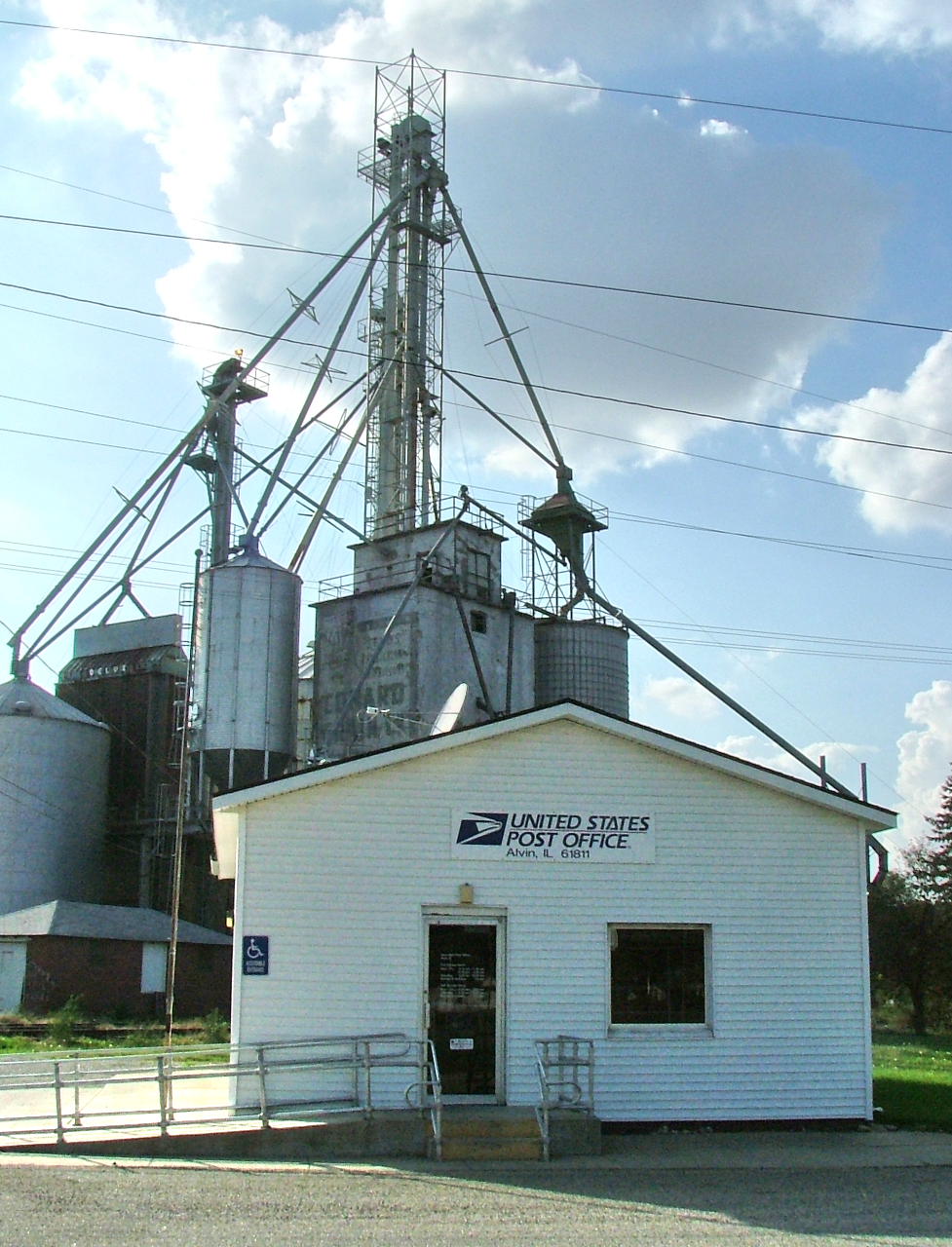 Post office in Alvin, Illinois, with grain elevator in the background